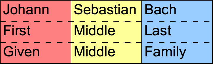 First/given, middle, and last/family name diagram with JS Bach as an example.